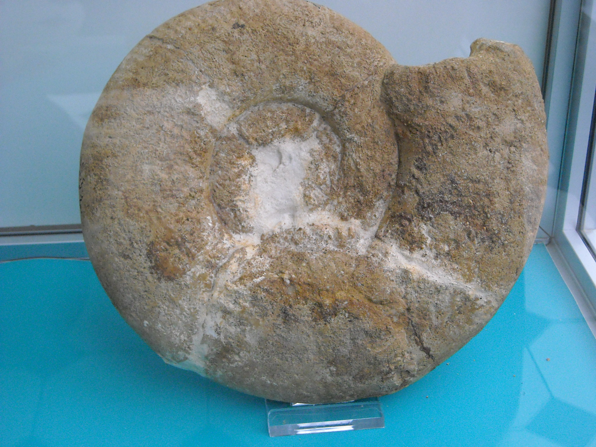 Fossil of Proplanulites sp. - a perisphinctid ammonite. This specimen comes from the Callovian of Poland.